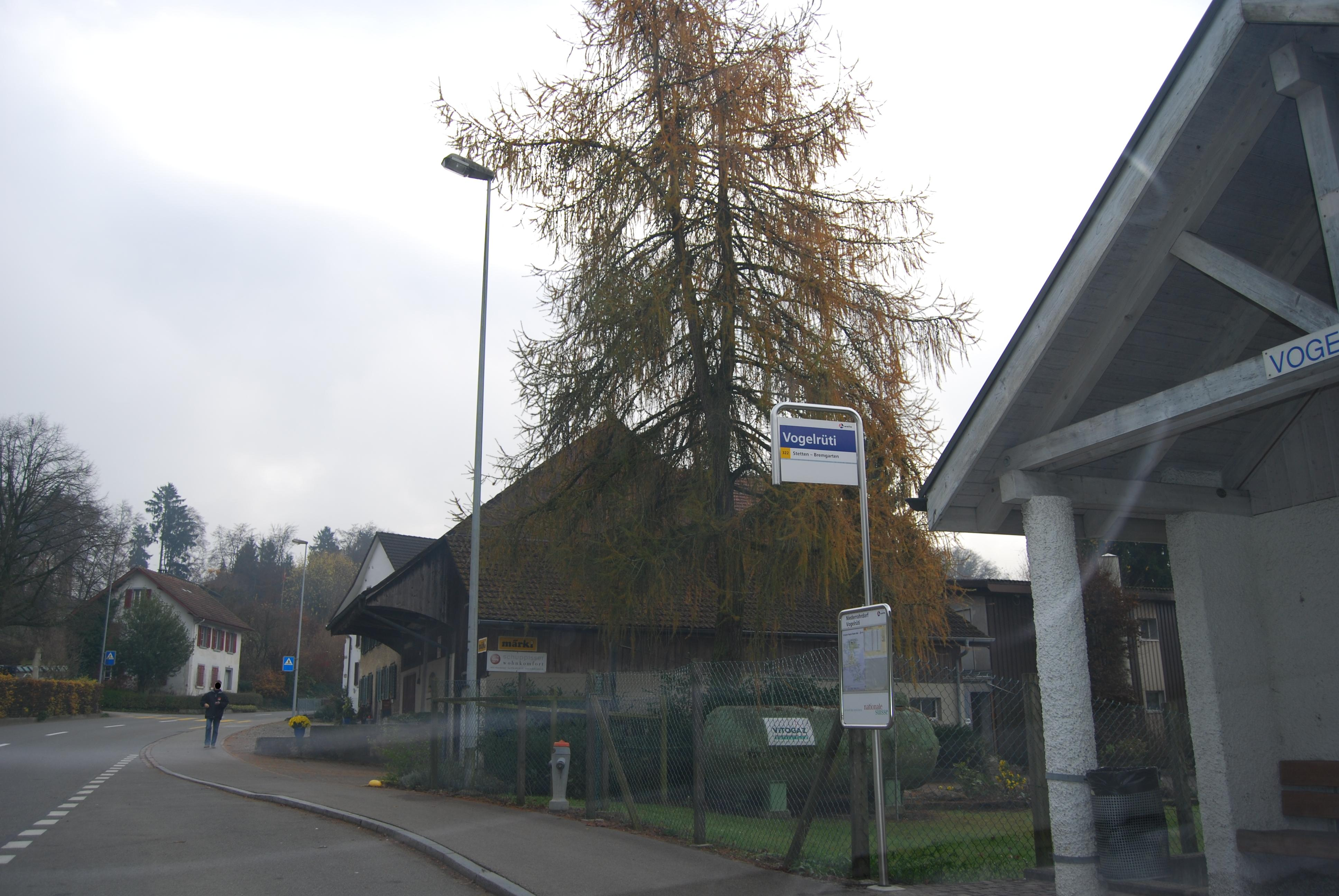 Bus stop at Vogelrüt, municipality of Niederrohrdorf, canton of Aargau, SwitzerlandEsperanto: Bushaltejo en Vogelrüt, komunumo Niederrohrdorf, Kantono Argovio, Svislando